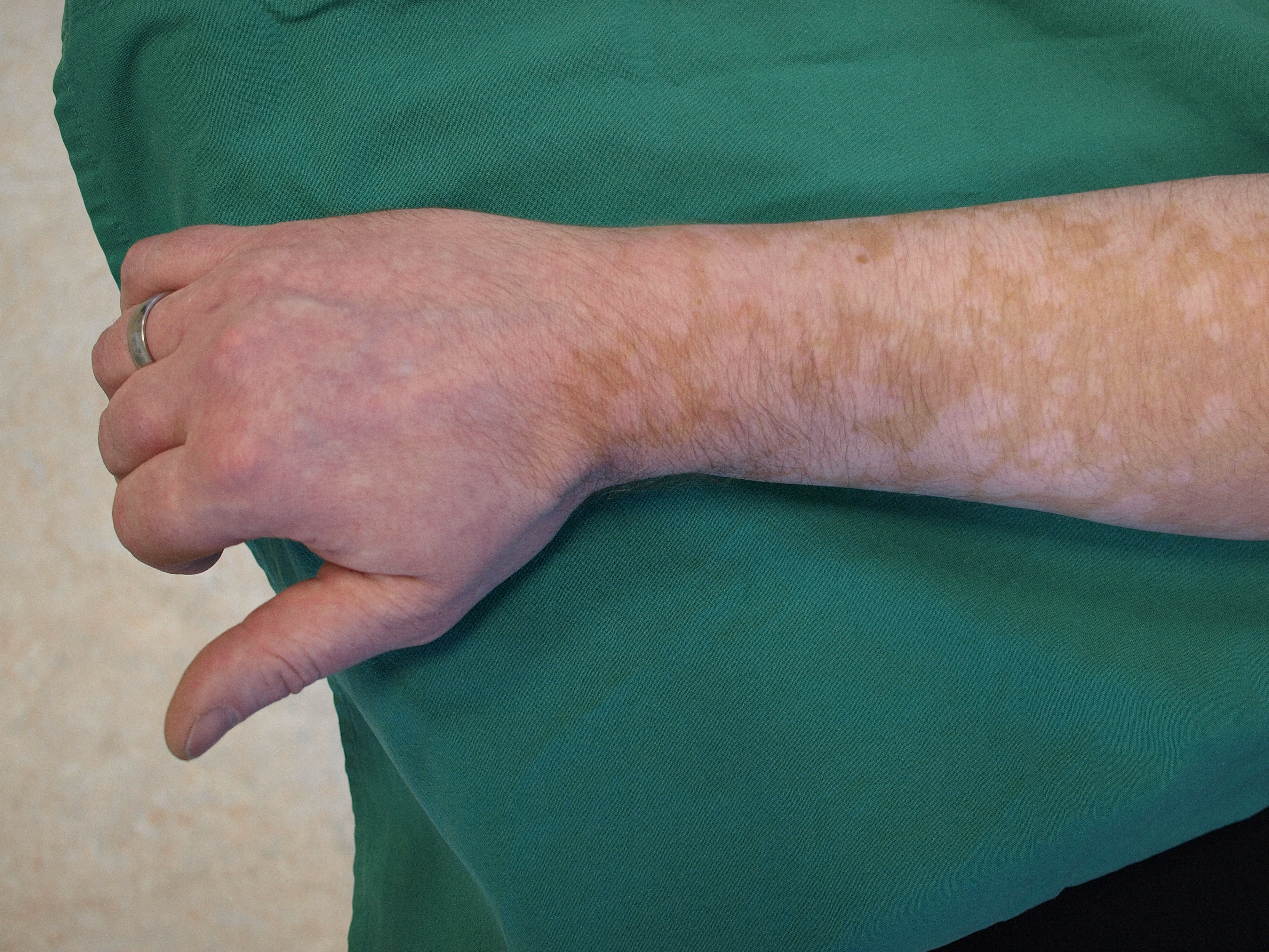 Café au lait spots of the skin in 46-year-old man. Patient suffering from Acoustic Neuroma.